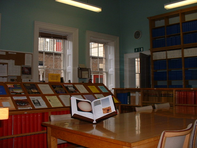 Cambridge Observatory Library The Institute of Astronomy Library is located in the main rooms of the Cambridge Observatory building.